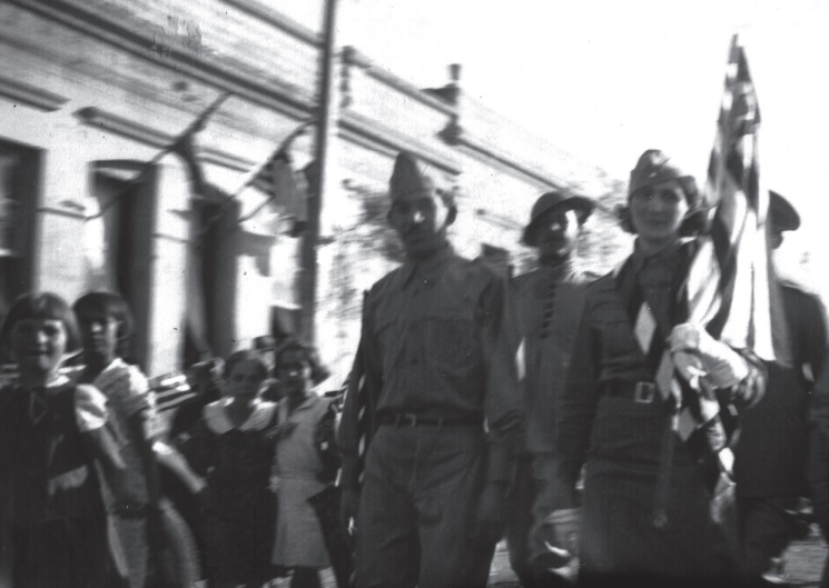 Maria Sguassábia parades in the streets of São João da Boa Vista. Image from the 1930s.